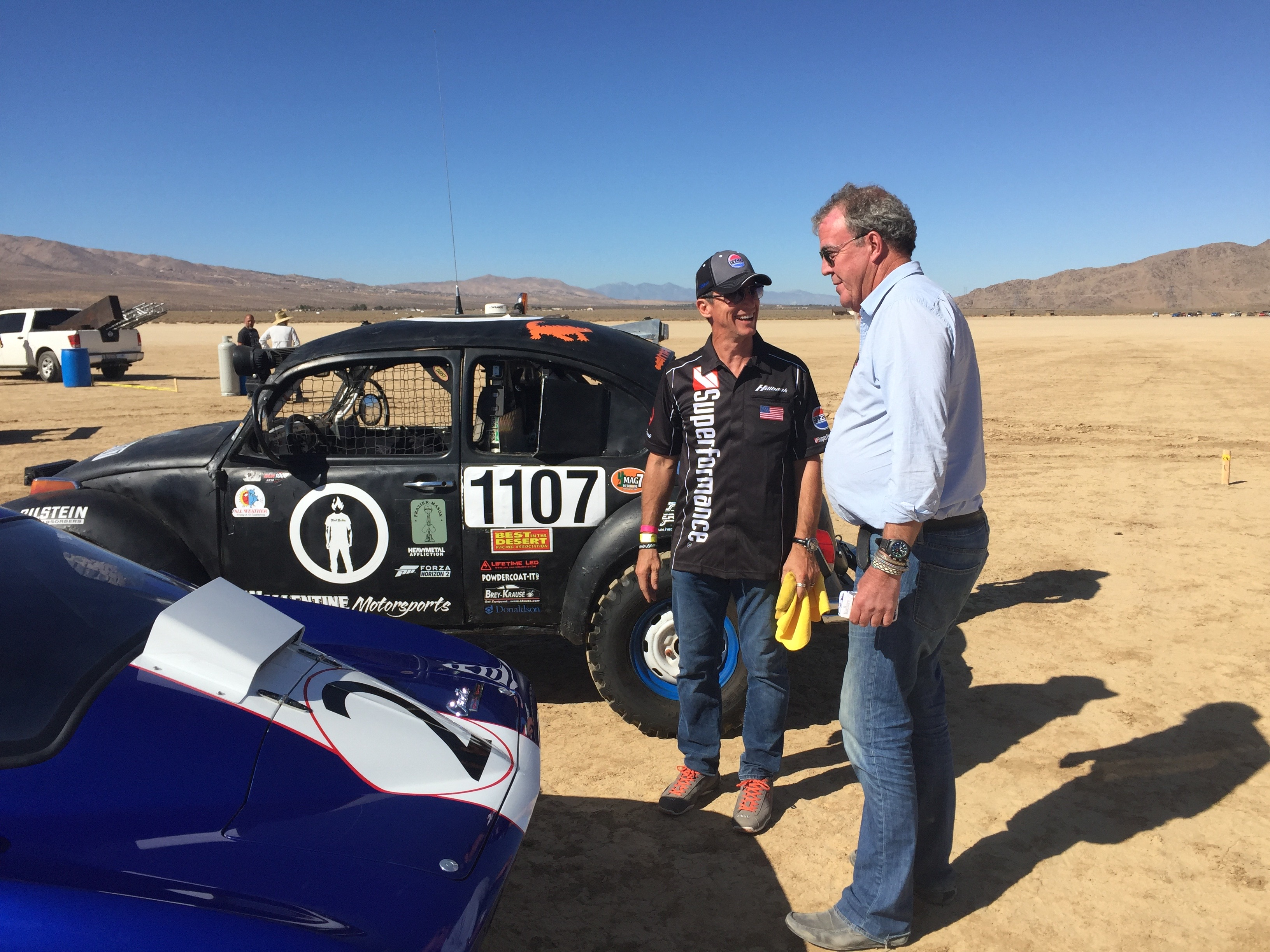 1107 was part of the reported $3.2 million shoot for the opening scene of the first episode of The Grand Tour. "The Holy Trinity" opening sequence for The Grand Tour (TV series) filmed on in the Lucerne Valley, California on 24 September 2016.